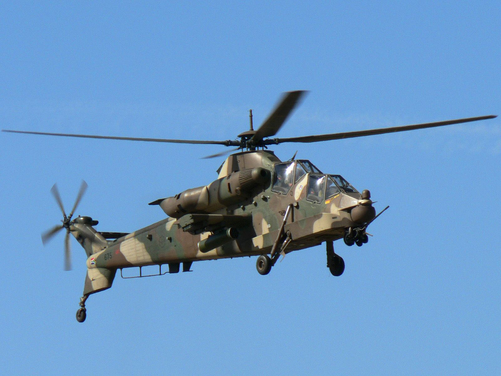 A Rooivalk helicopter in flight